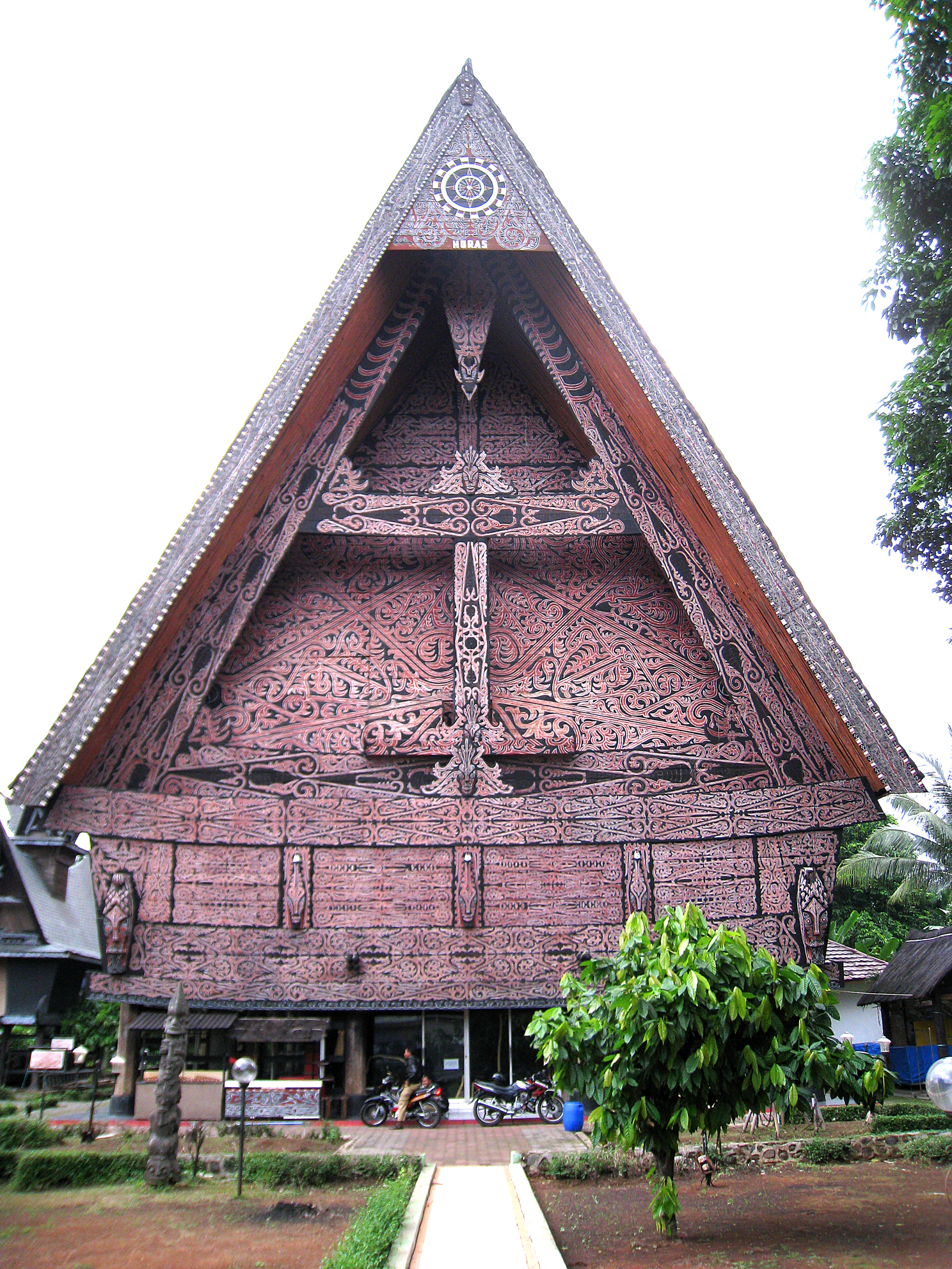 Traditional Toba Batak house in North Sumatran Pavilion, Taman Mini Indonesia Indah, Jakarta.